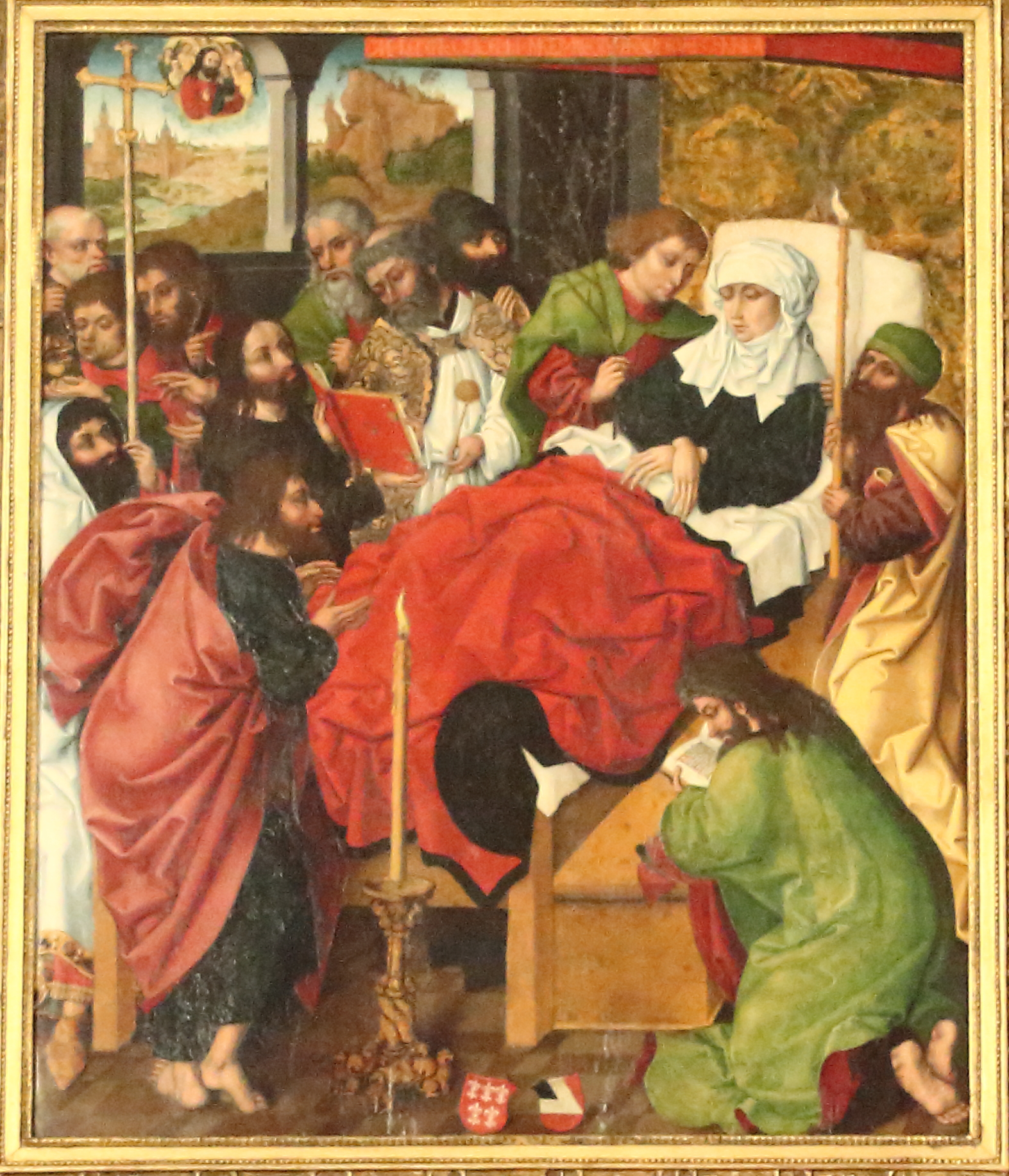 "Dormition of Virgin Mary" from the late 15th century. Donated in 1872 from the estate of Karl August Baron von Klein (1793-1870). The picture originally belonged to his father's collection, Anton von Klein (1746-1810). Holy Cross church, Assmannshausen, Germany.